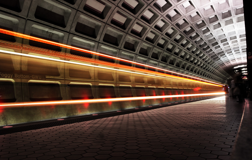 The Foggy Bottom-GWU Metro station located in the Foggy Bottom neighborhood of Washington, D.C.